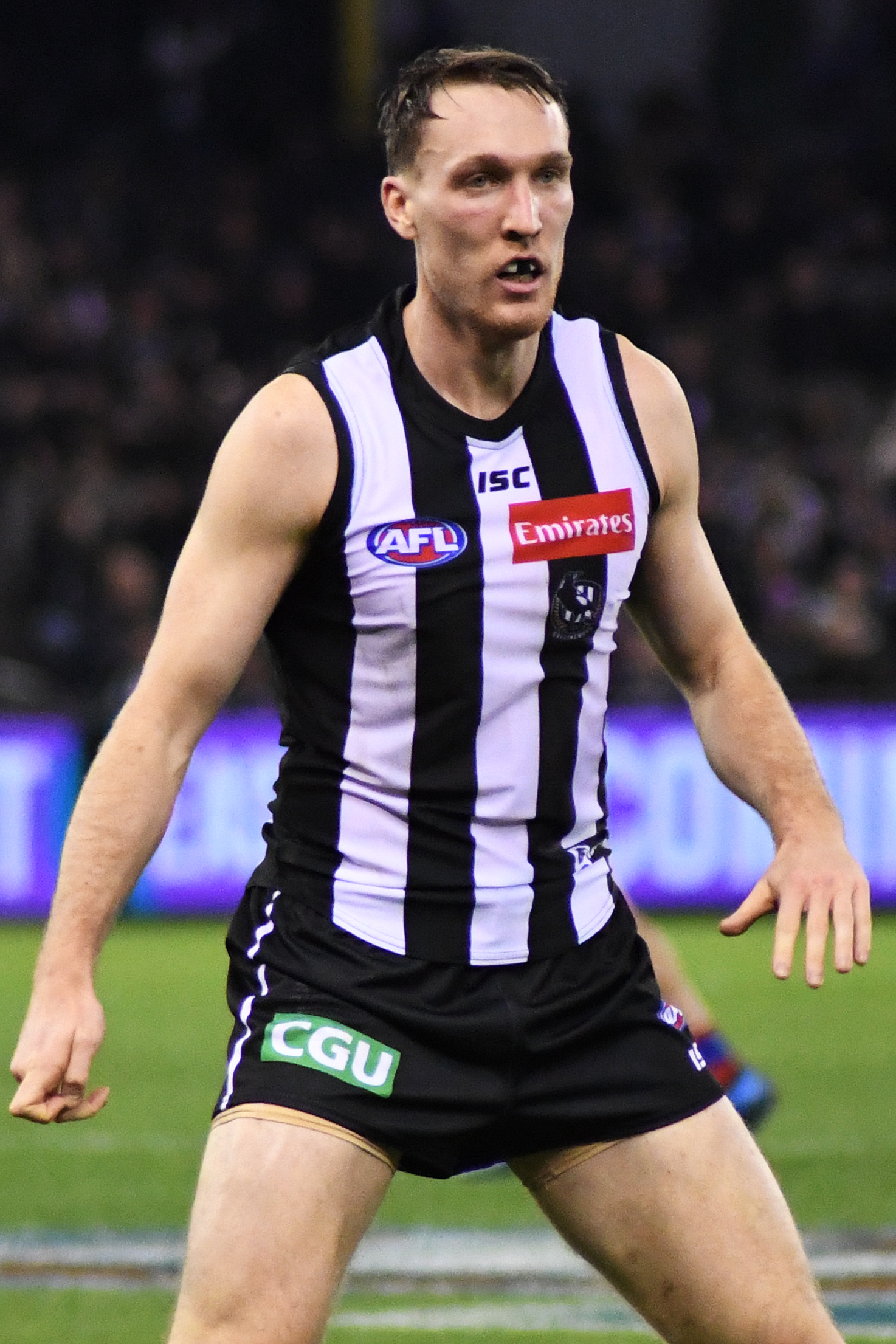 Jack Madgen of Collingwood during the 2018 AFL round 21 match between Collingwood and Brisbane at Etihad Stadium on Saturday, 11 August 2018 in Melbourne, Victoria.